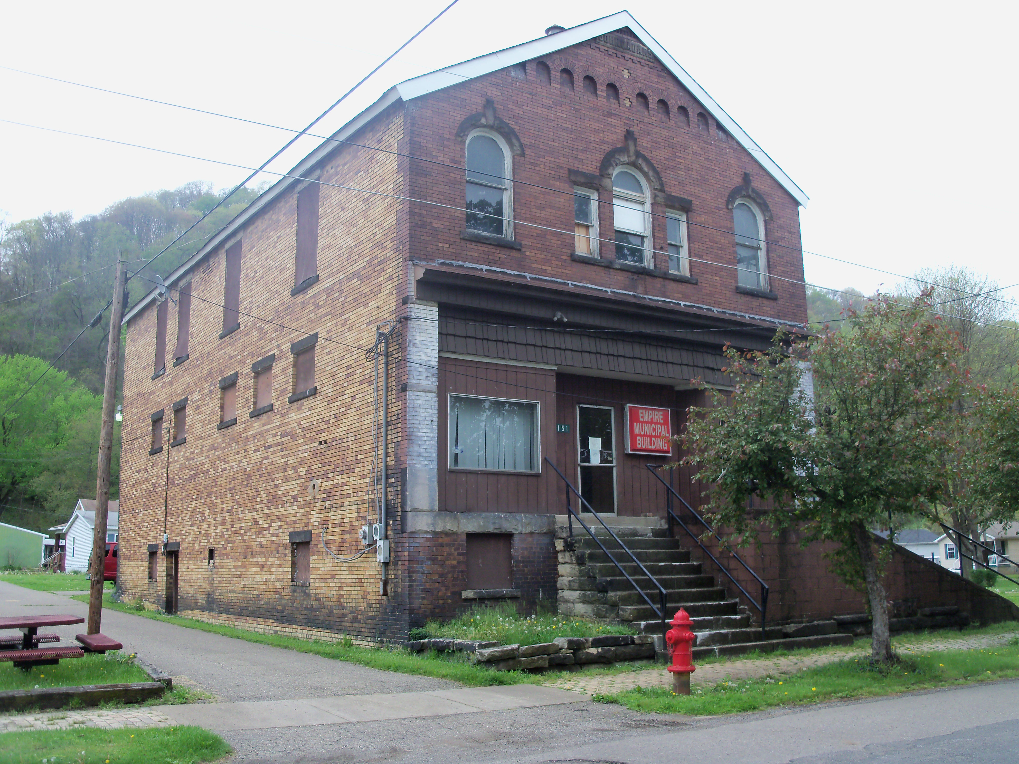 Empire, Ohio is a village in Jefferson County, Ohio. This is town hall.